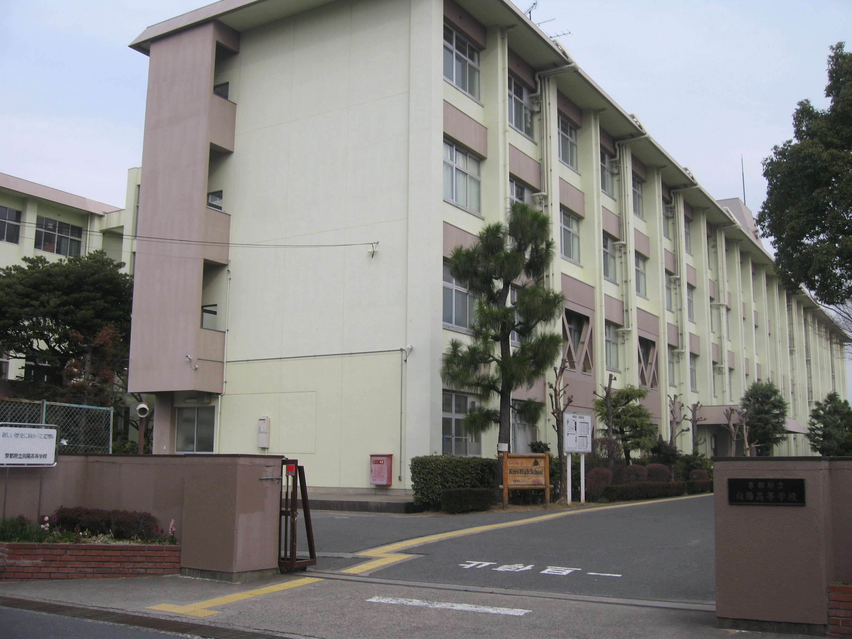 Kyoto prefectual Koyo high school in Japan